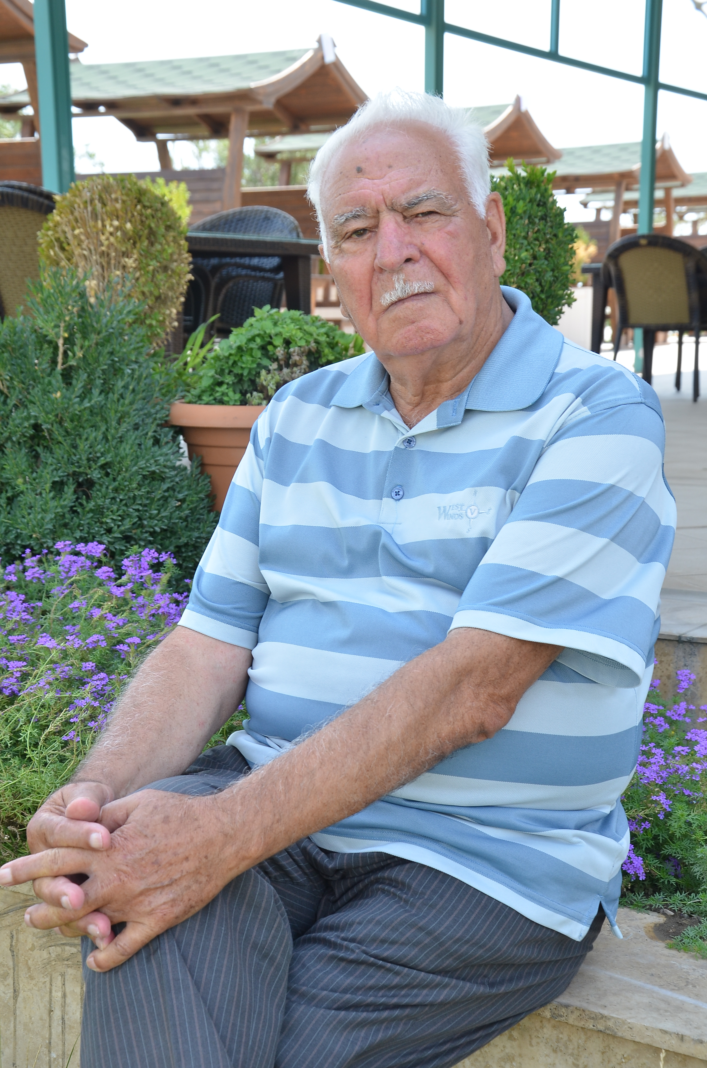 şair-publisist